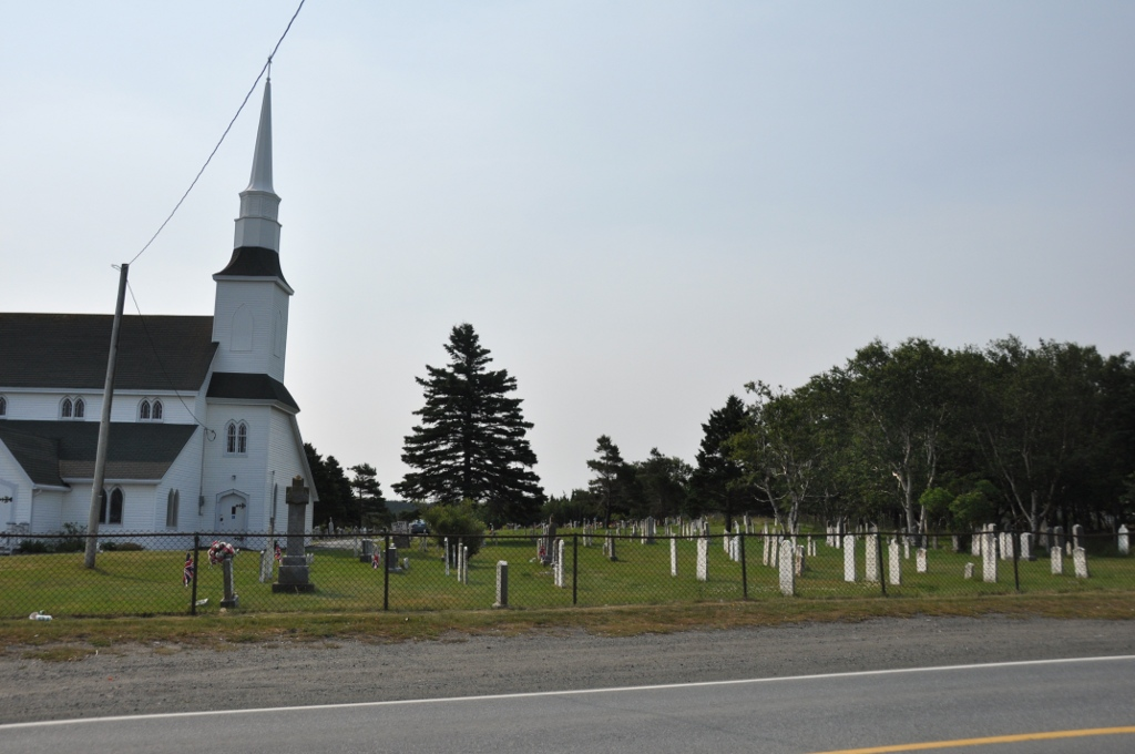 St. Peter's Anglican Church and Cemetery Municipal Heritage Site, Conception Bay South, Newfoundland.